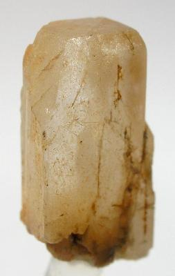 Hambergite Locality: Himalaya Mine (Himalaya pegmatite; Himalaya dikes), Gem Hill, Mesa Grande District, San Diego County, California, USA (Locality at ) Size: thumbnail, 1.5 x .8 x .5 cm Hambergite Very nice example of a hard-to-find species in good crystals, since they tend to etch or dissolve away and leave you without euhedral and 3-dimensional crystals often enough. THIS ONE, however, has sharp faces and a real termination! This tabular crystal is sharp, has good luster, and is partially gemmy. As good a Hambergite as you are likely to find from any locality, particularly from this mine.